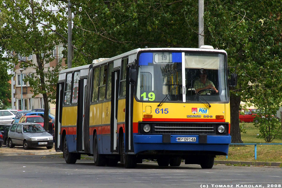 Ikarus 280.70H bus (#615) in Płock, Poland. Built 1995, KM Płock operator.